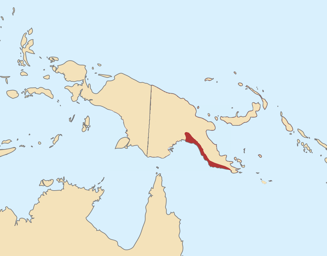 Scheepmaker's Crowned Pigeon Goura scheepmakeri distribution.